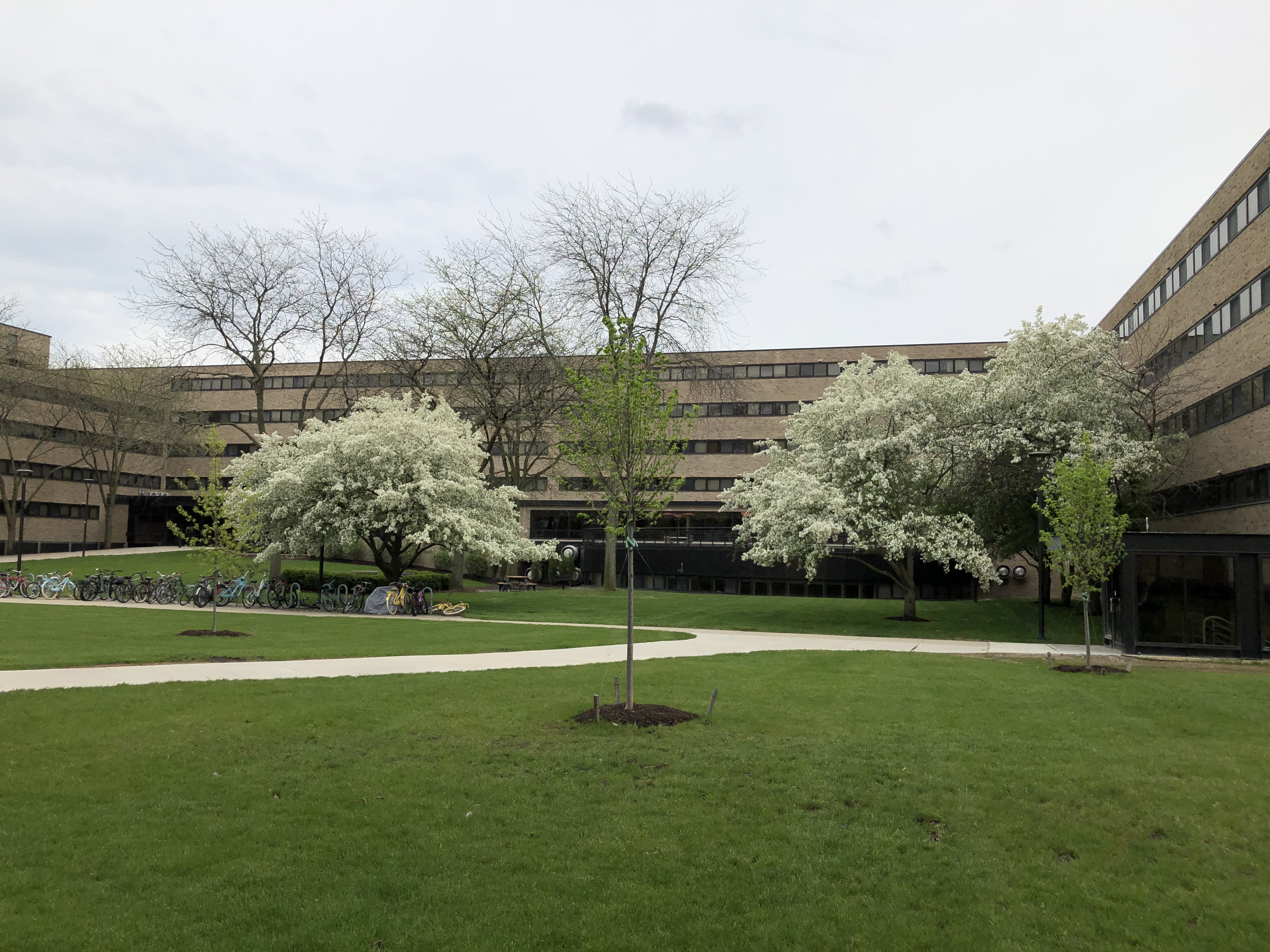 Founders Hall at BGSU. A residence hall that also houses the Honors College.